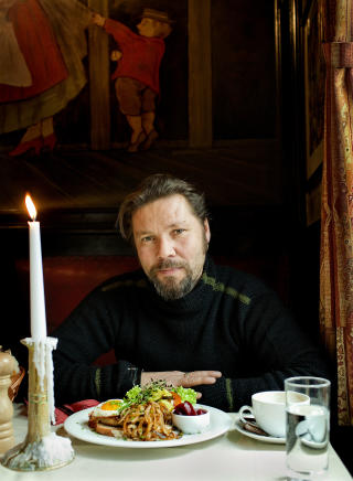 Skuespiller Stig Henrik Hoff